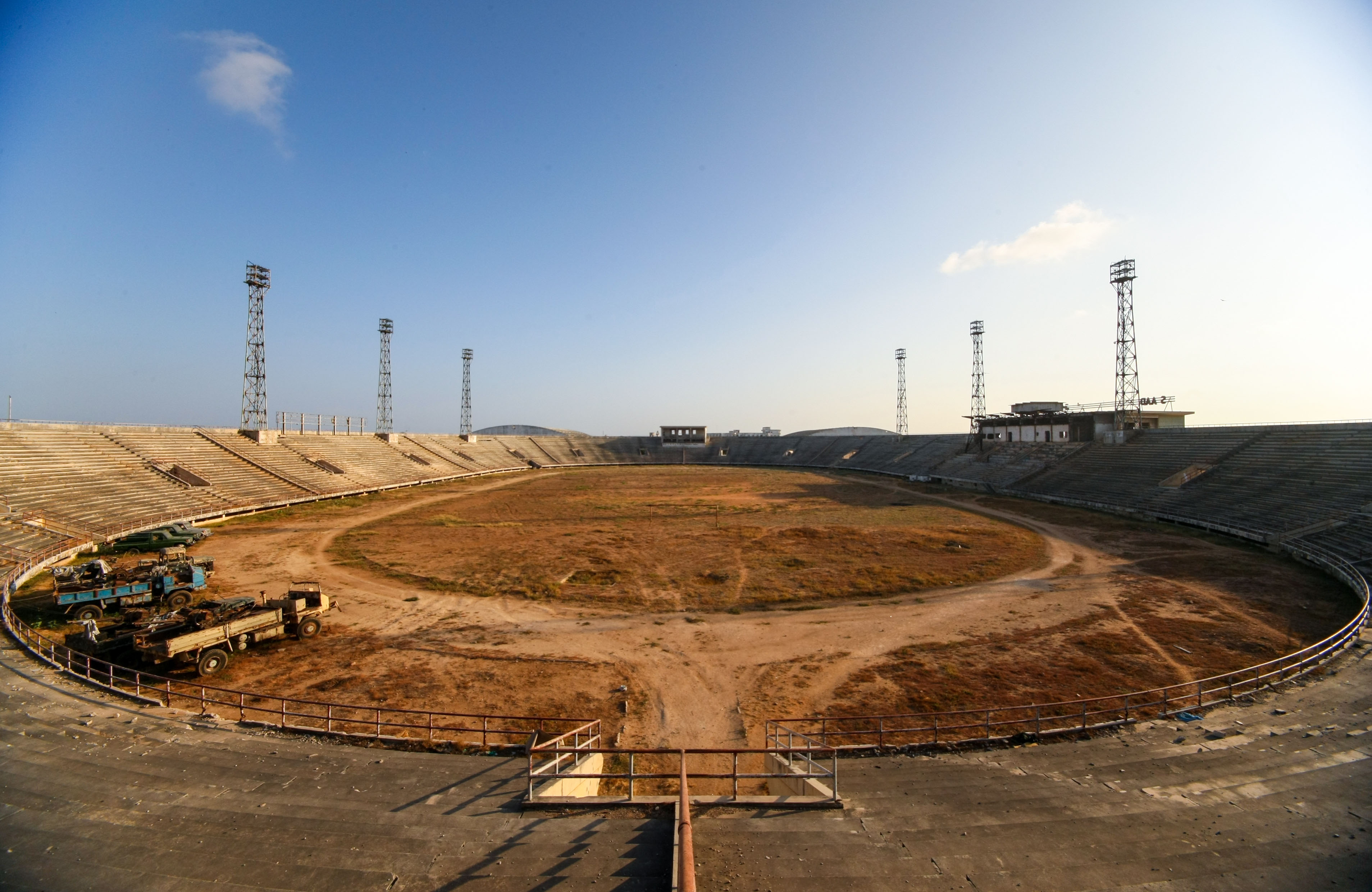 A view of Mogadishu National Stadium. Formerly a main base for the Al-Qaeda-allied violent extremist group Al Shabaab, the once impressive stadium was used as a headquarters for the group's operations in Mogadishu, a training ground for their fighters and a site where they executed prisoners and tested and assembled improvised explosive devices (IEDs). After two decades of near-constant conflict, Somalia is enjoying its longest period of peace and growing security since Al Shabaab was driven from Mogadishu in August 2011. Under the Shabaab's draconian rule, social pastimes and sports such as football were banned but residents of the city and elsewhere across Somalia in areas liberated by sustained operations by the Somali National Army (SNA) supported by AMISOM troops are now enjoying their freedoms once again. On January 19, Africa’s top football teams will meet in South Africa to contest for the continent’s most prestigious football title - the African Nations Cup – and although Somalia has never taken part due to insecurity and the hitherto ban on the playing and watching of football by Al Shabaab, the sport is once more growing in obvious evidence across the city and experiencing a surging revival of fortunes and popularity. AU-UN IST PHOTO / STUART PRICE.